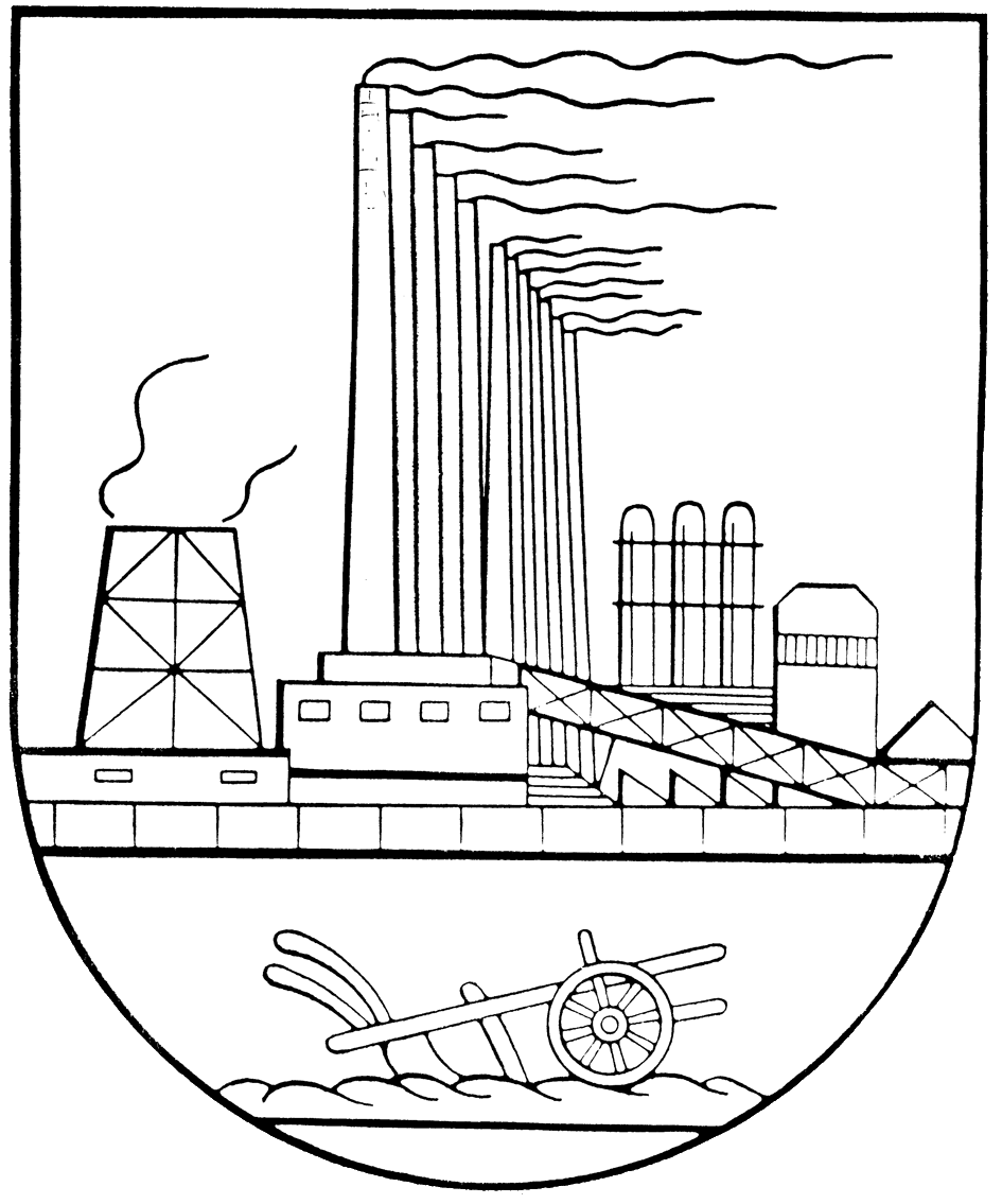 Former Coat of arms of Leuna